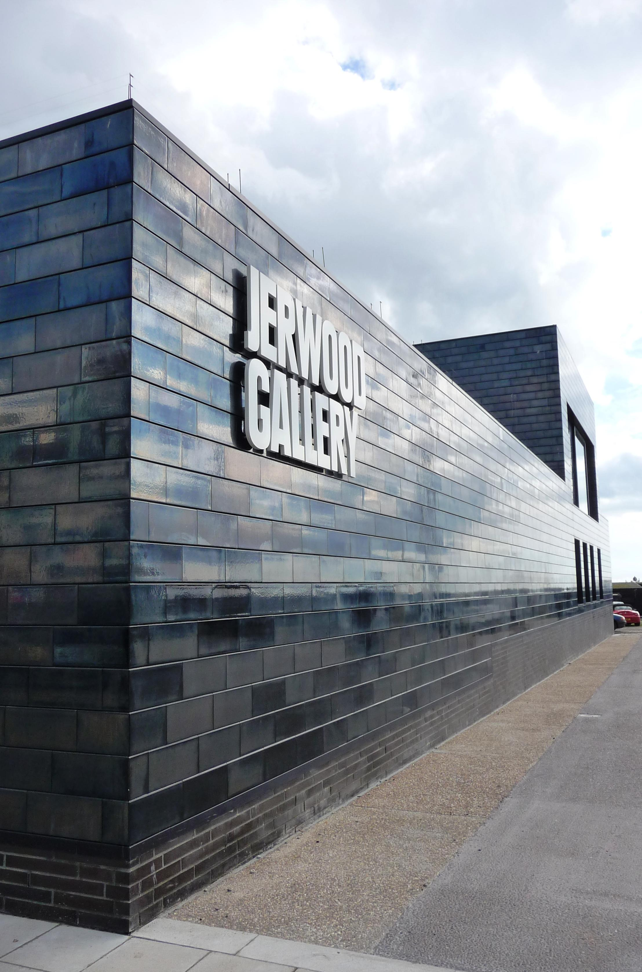 The side of the Jerwood Gallery in Hastings.